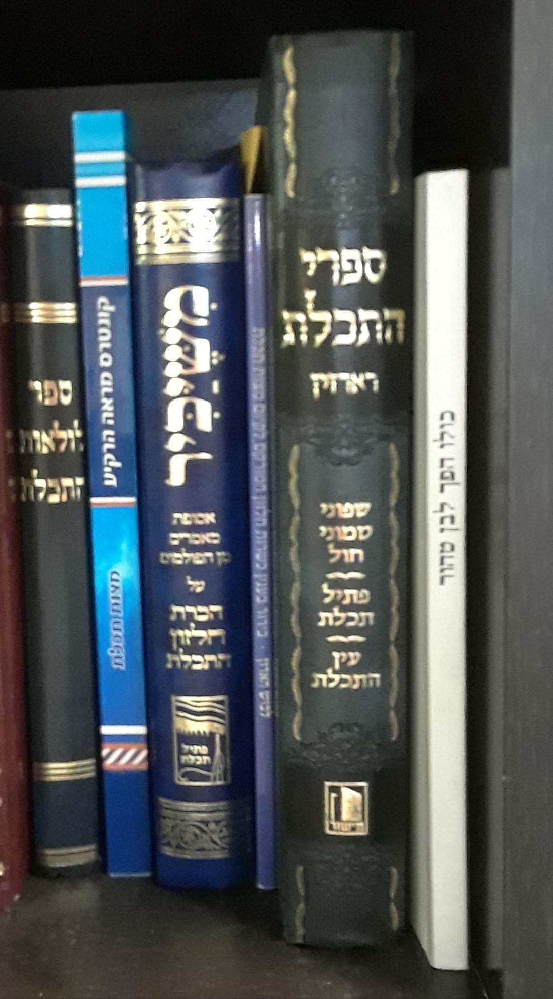 Shelf of seforim which discuss the identity of the chilazon from which techeiles is produced